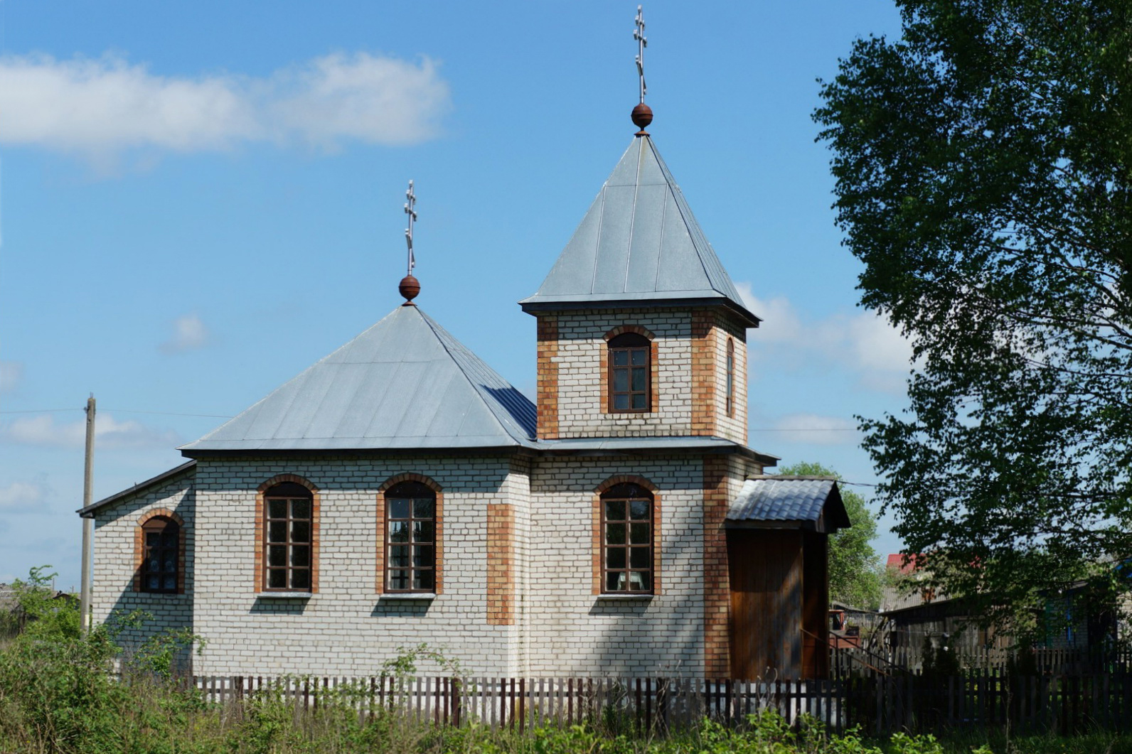 Bubny. Church of the Holy Virgin